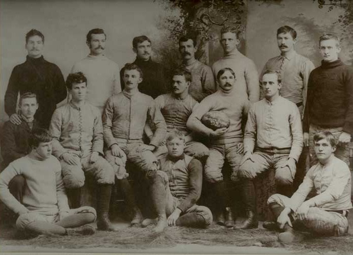 Washington & Jefferson College football team in 1982